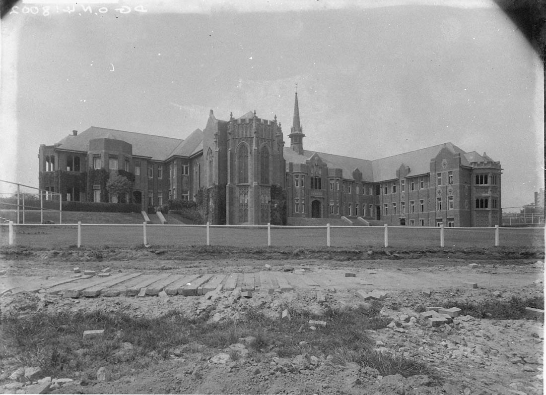 The exterior of Wesley College, Sydney University in the 1930s.